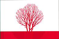 Flag of Sîngerei District